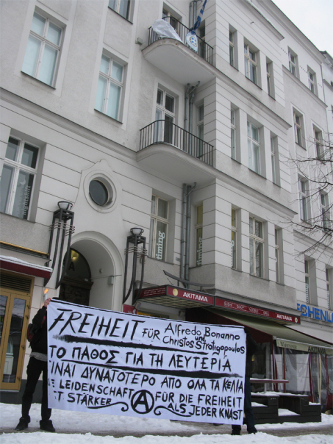 Solidarity Action for the italian Anarchist Alfredo Maria Bonanno in front of the Greek Embassy in Berlin